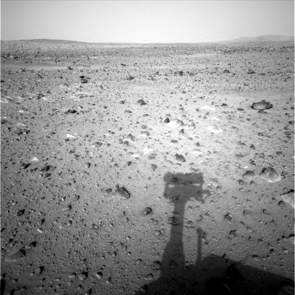 WARNING: MISLEADING FILENAME! Right Navigation Camera Non-linearized Full frame EDR acquired on Sol 43 of Spirit's mission to Gusev Crater at approximately 16:35:48 Mars local solar time. NASA/JPL [1]